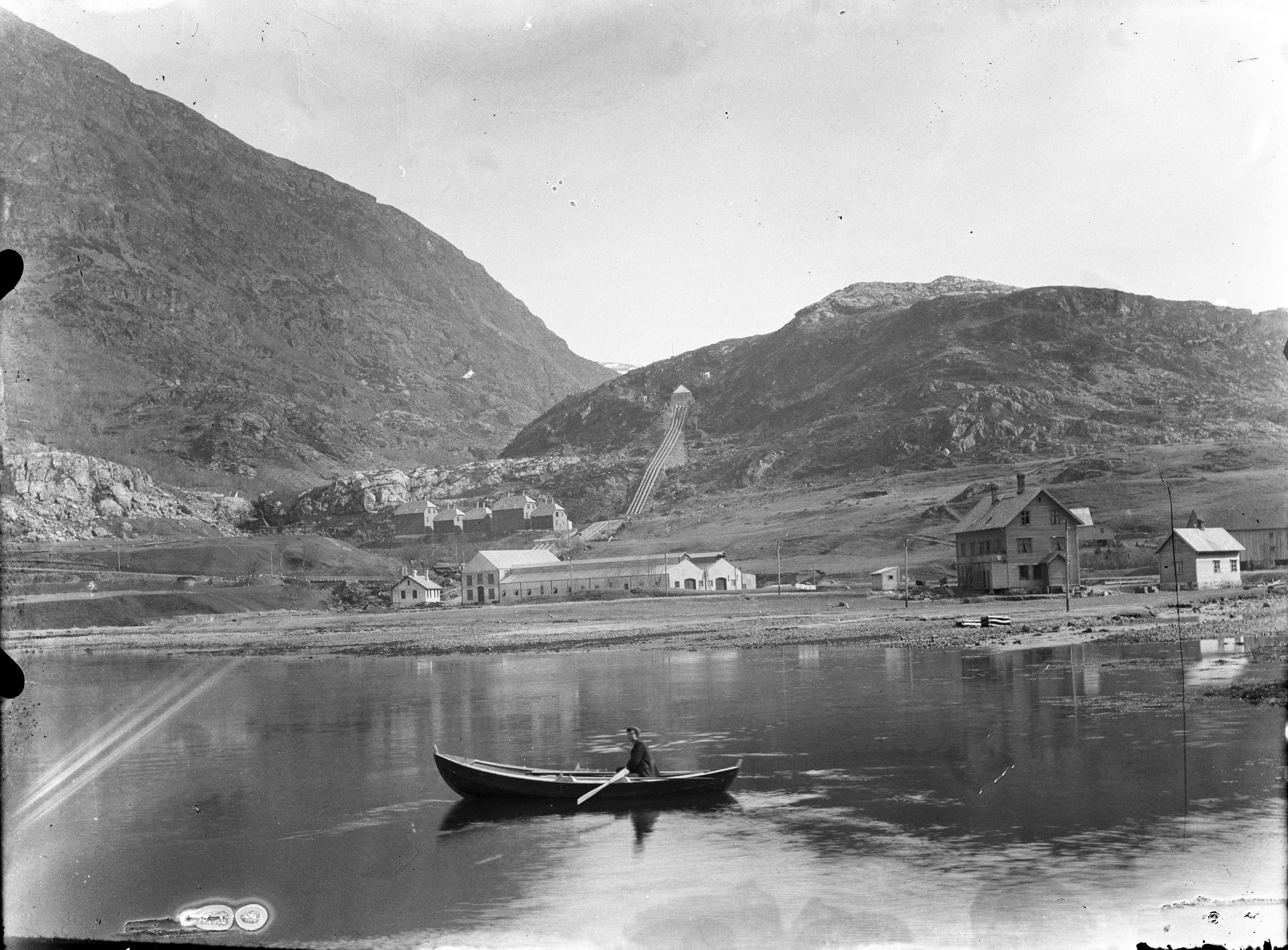 View of Stongfjorden from the fjord. Stangfjorden Elektrokemiske Fabriker in the middle of the picture. Identifier:SFFf-1989091.162918 Photographer: Paul Stang.